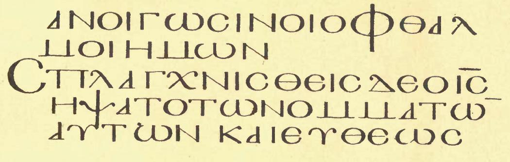 text of Matthew 20:33-34 in Scrivener's facsimile (1894)